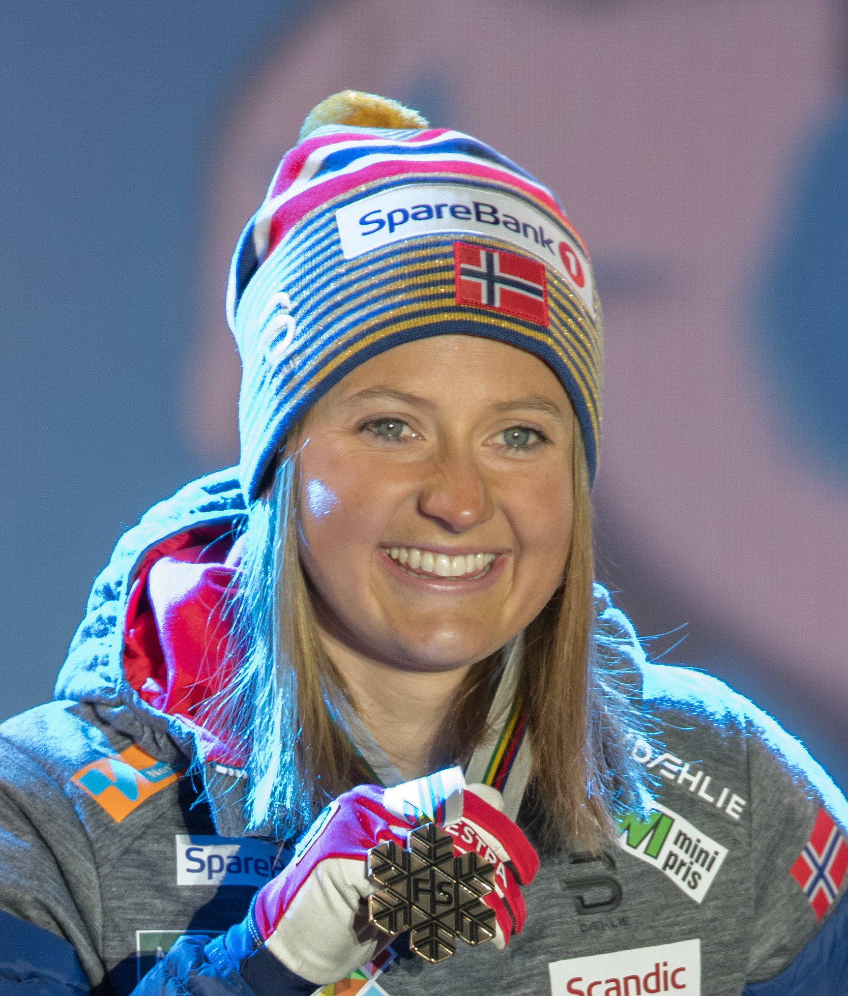 FIS Nordic Wolrd Ski Championships Seefeld 2019 - Medal Ceremony at the Medal Plaza. Picture shows Ingvild Flugstad Østberg (NOR).